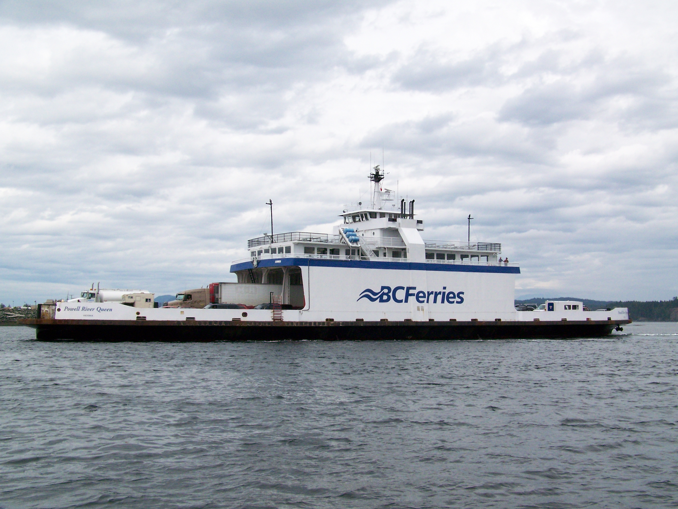 Powell River Queen - Aug 30/07